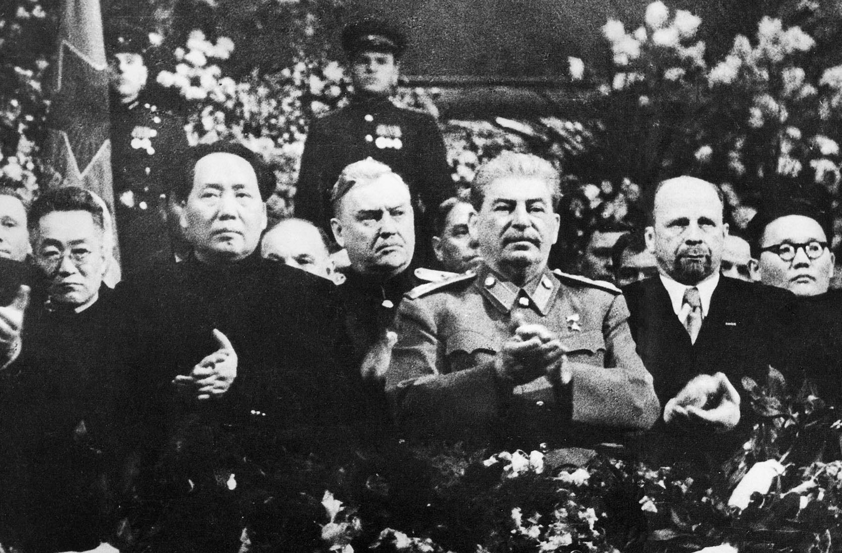 Mao at Stalin's side on a ceremony arranged for Stalin's 71th birthday in Moscow in December 1949. Behind between them is Marshal of the Soviet Union Nikolai Bulganin. on the right hand of Stalin is Walter Ulbricht of East Germany and at the edge Mongolia's Yumjaagiin Tsedenbal.